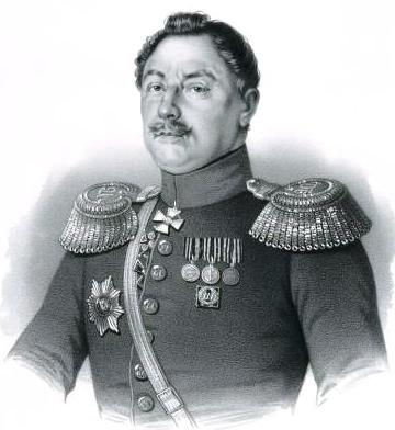 Ivane Andronikashvili